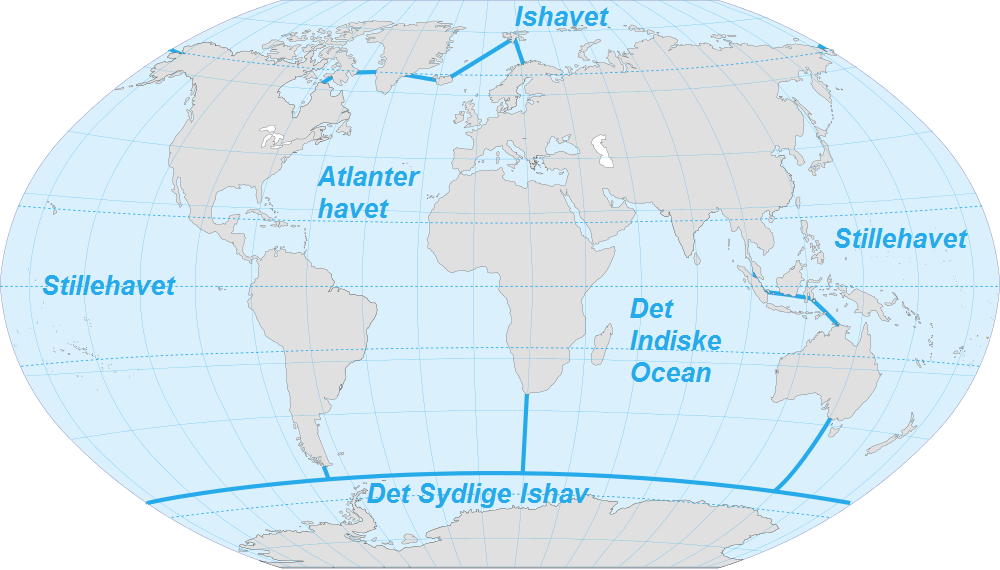 World map of oceans : Danish version